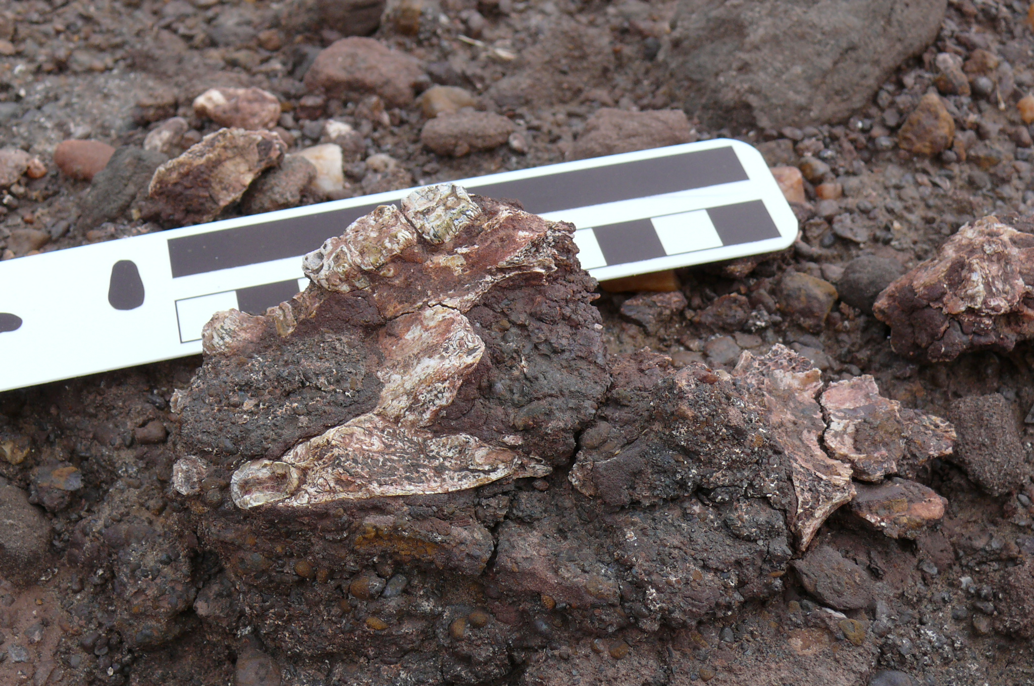 Cranium of Saadanius hijazensis as it was found in February 2009 during a joint Saudi Geological Survey and University of Michigan field expedition. The specimen was found with the palate and teeth facing upward, embedded in an iron-rich clastic conglomerate in the middle part of the Shumaysi Formation. Photograph by Iyad S. Zalmout, University of Michigan Museum of Paleontology.